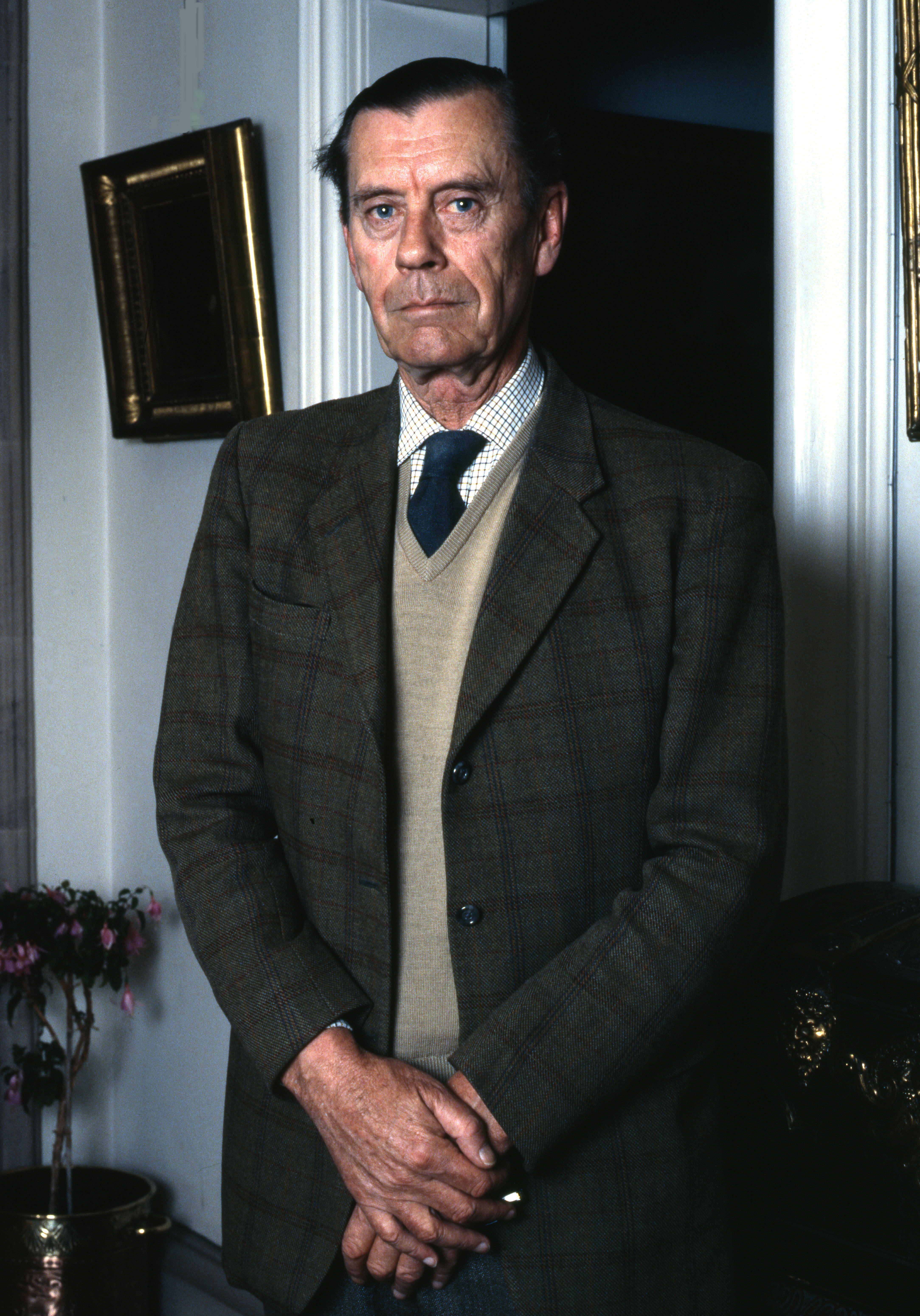 Portrait of The 6th Duke of Sutherland at his home.